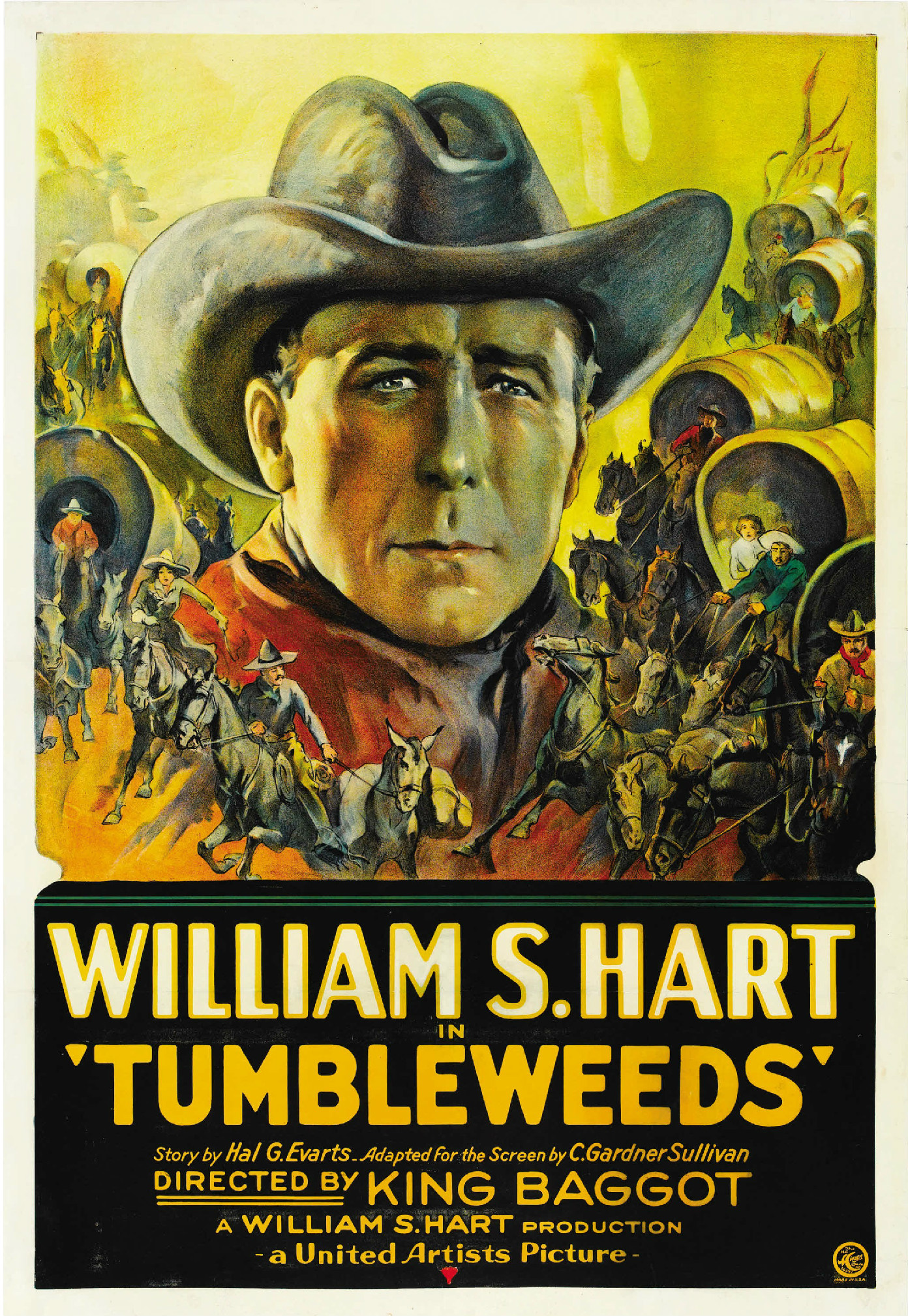 Poster for the 1925 film Tumbleweeds. Renewal searches were done in film and artwork for the years 1952 and 1953. There were no listings for the film title, or for United Artists or the Miner Company NY (printed the poster) in artwork. There's no evidence of current copyright for the film or its associated materials.